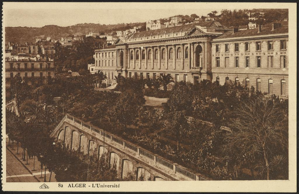 Postcard of Algiers, early 20th century Creator: CAP Date: early 20th century Accession number: ZPC2 A1A4 Featured in the exhibition, Walls of Algiers: Narratives of the City, May 19 - October 18, 2009 at the Getty Research Institute. Part of the Cities and Sites Postcard collection in the Getty Research Institute Library's special collections. View the library record for this collection.